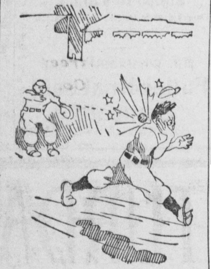 in 1904, the Tacoma Times used this image to illustrate an article about a baseball game.